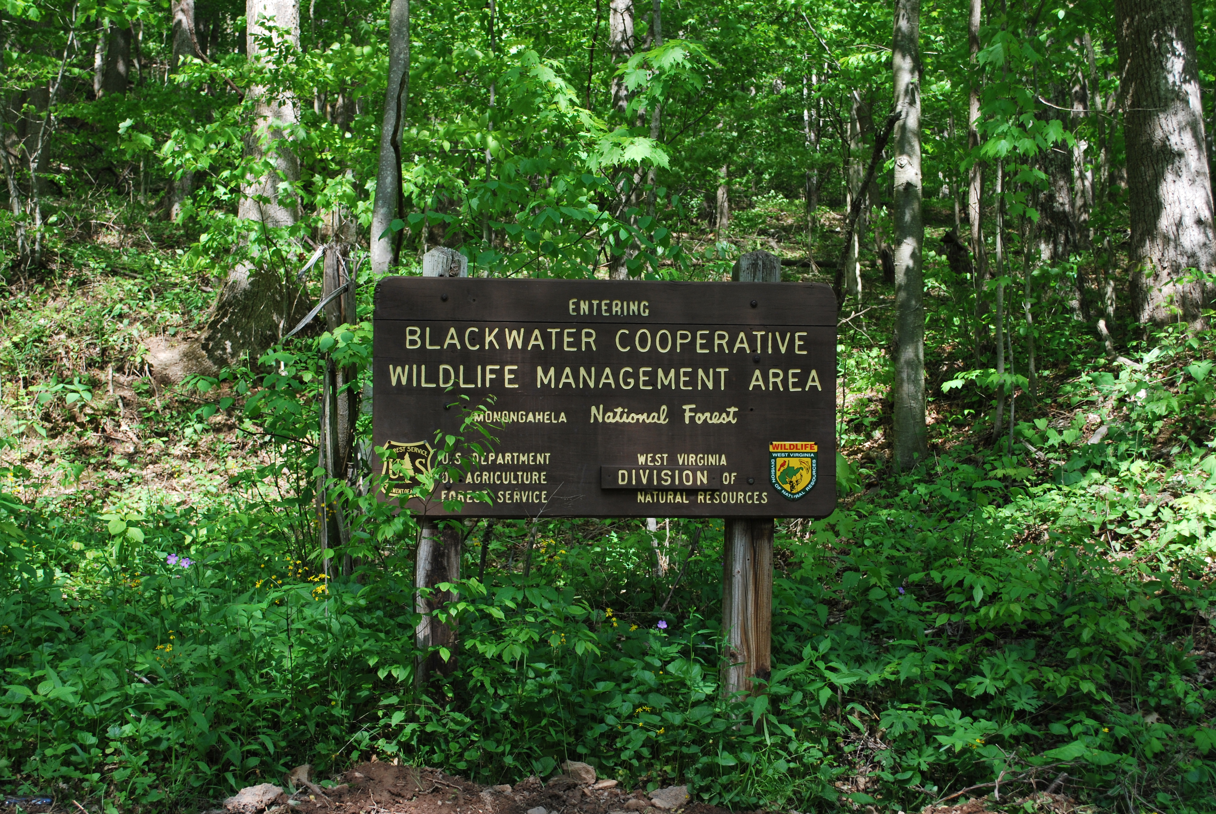 Sign for Blackwater Cooperative Wildlife Management Area in Monongahela National Forest.